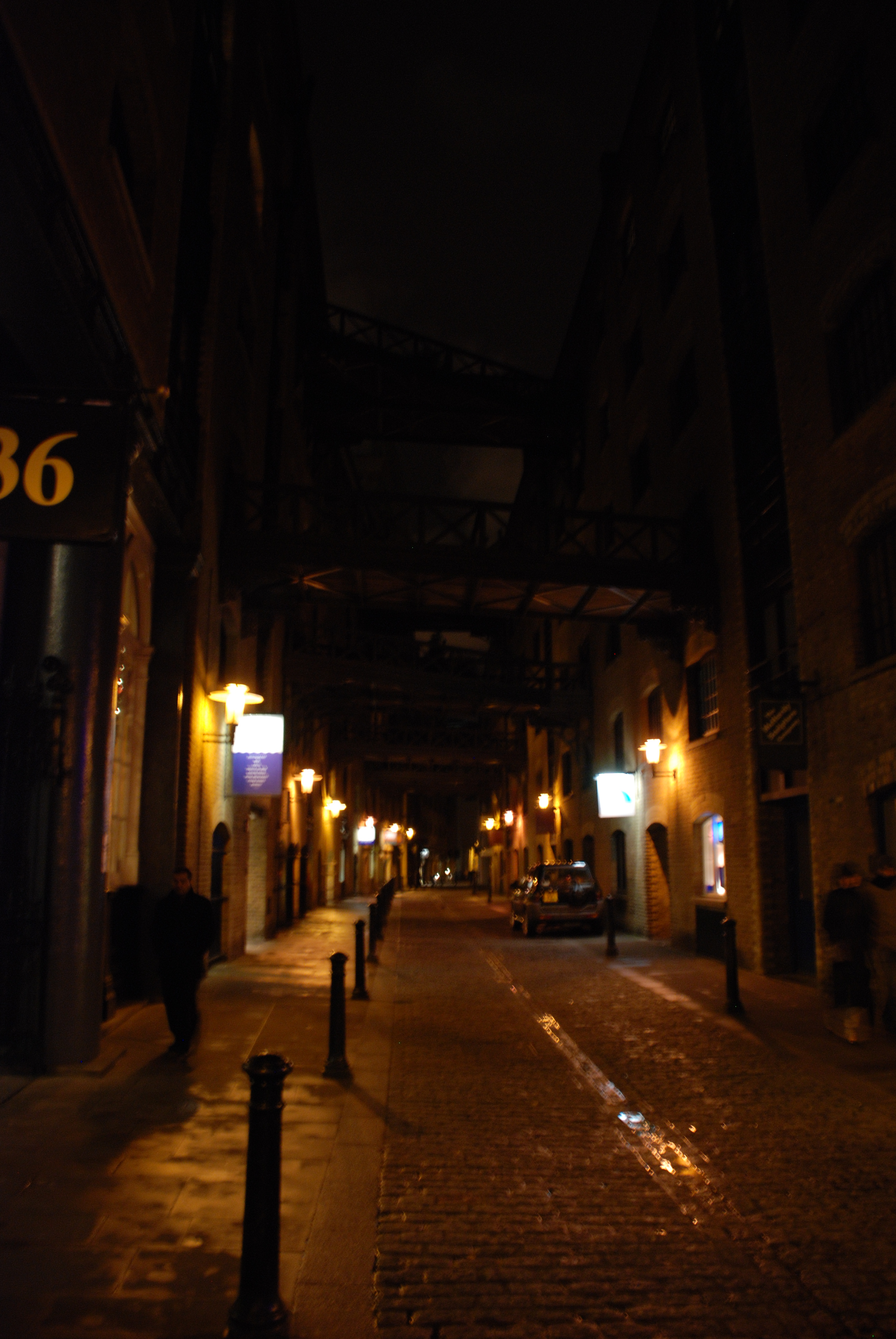 Picture taken by Piyush Jain, Bermondsey, London. Please notify author if you intend to use this for commercial purposes.